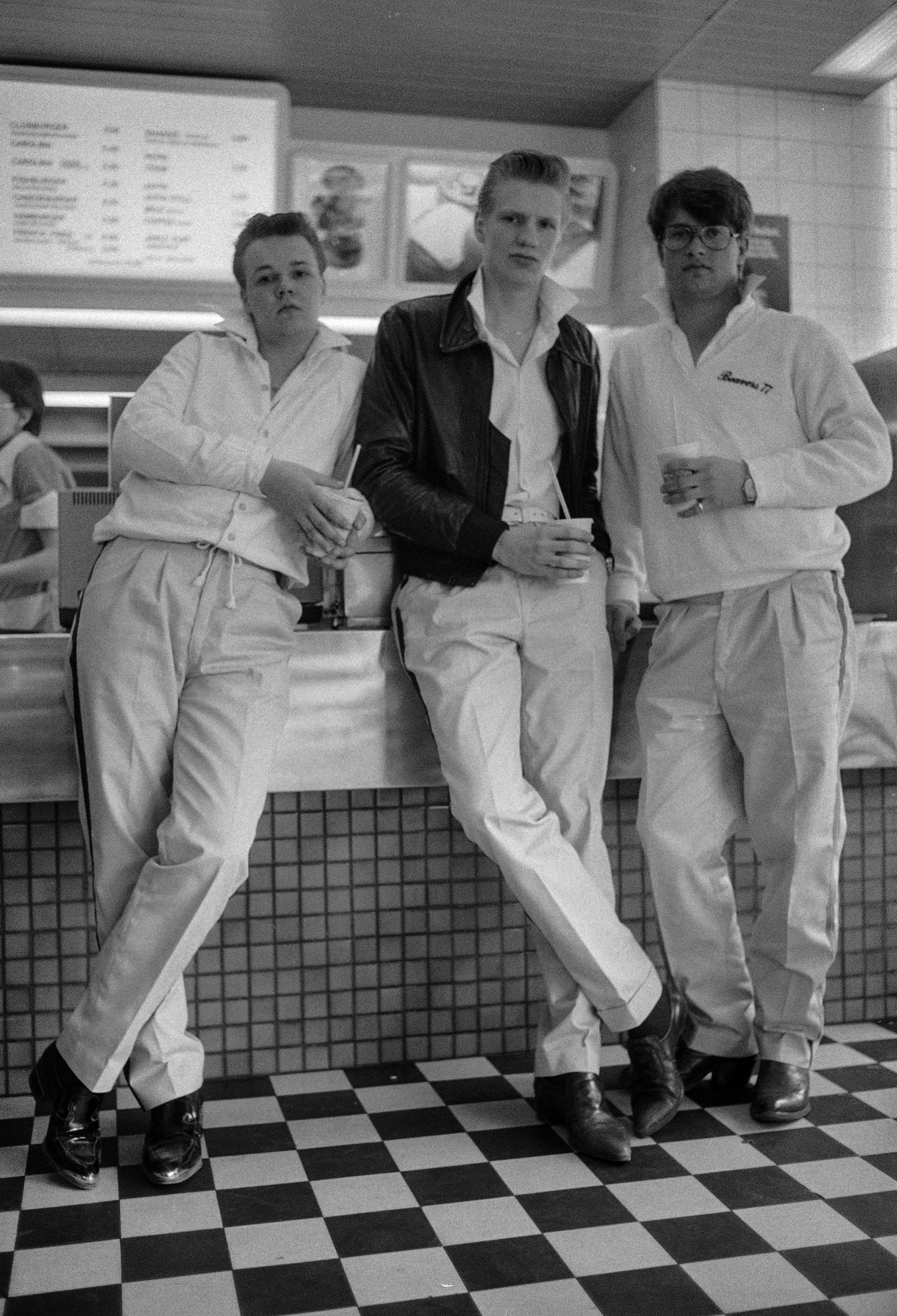 Photograph of the Finnish rock band Teddy & the Tigers (Alpo "Aikka" Hakala, Antti-Pekka "AP" Niemi, Pauli "Pale" Martikainen). Photographed at Carrols hamburger restaurant, possibly in Citykäytävä.